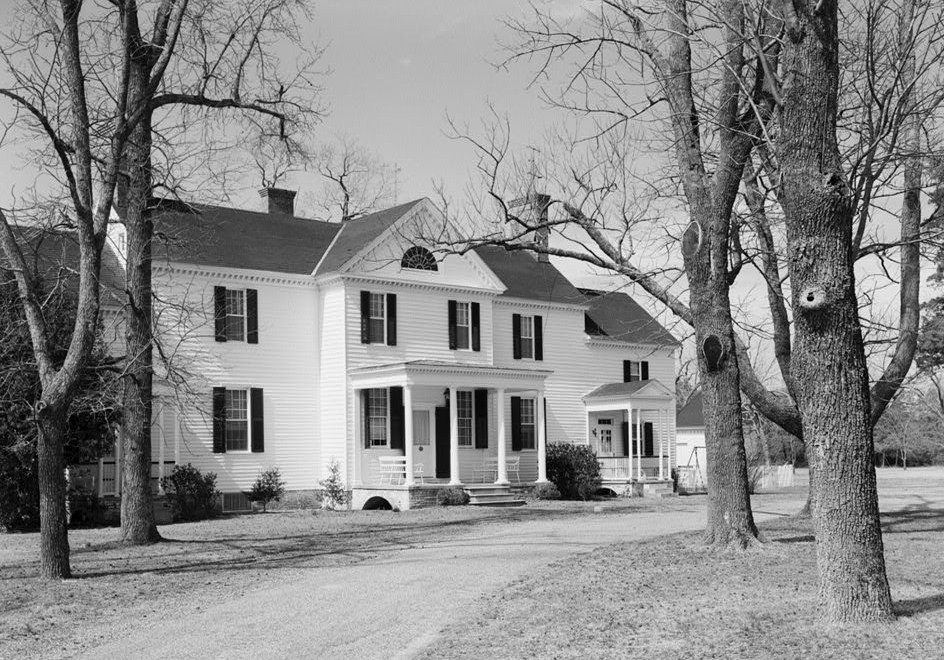 Kendall Grove, State Route 674, Eastville vicinity (Northampton County, Virginia) cropped HABS VA,66-EAST.V,6-2 This file comes from the Historic American Buildings Survey (HABS), Historic American Engineering Record (HAER) or Historic American Landscapes Survey (HALS). These are programs of the National Park Service established for the purpose of documenting historic places. Records consist of measured drawings, archival photographs, and written reports. When reusing please credit: Library of Congress, Prints & Photographs Division, VA-807 This tag does not indicate the copyright status of the attached work. A normal copyright tag is still required. See Commons:Licensing. This work is in the public domain in the United States because it is a work prepared by an officer or employee of the United States Government as part of that person’s official duties under the terms of Title 17, Chapter 1, Section 105 of the US Code. Note: This only applies to original works of the Federal Government and not to the work of any individual U.S. state, territory, commonwealth, county, municipality, or any other subdivision. This template also does not apply to postage stamp designs published by the United States Postal Service since 1978. (See § 313.6(C)(1) of Compendium of U.S. Copyright Office Practices). It also does not apply to certain US coins; see The US Mint Terms of Use. This file has been identified as being free of known restrictions under copyright law, including all related and neighboring rights.